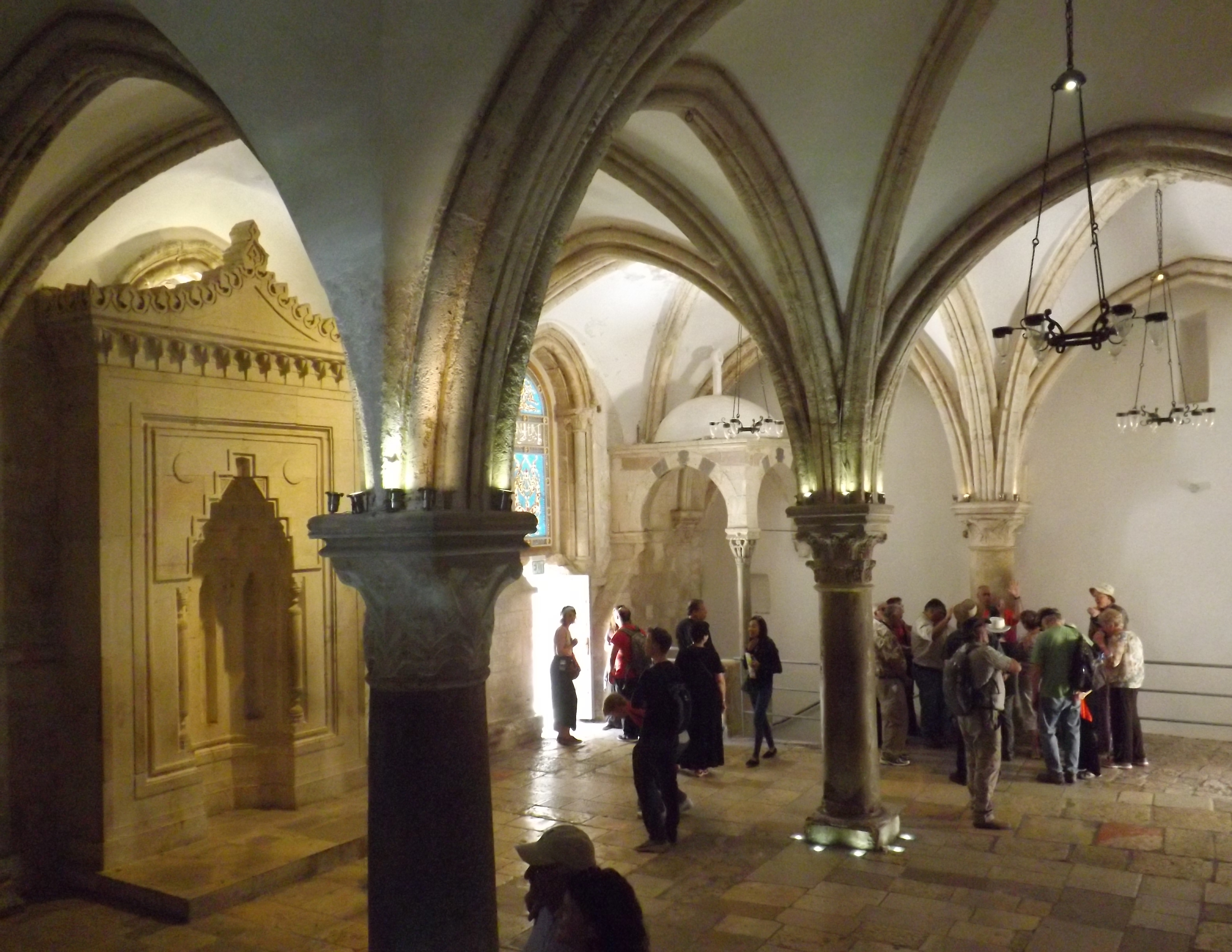 According to later tradition, the Last Supper took place in what is called today 'The Room of the Last Supper' on Mount Zion, just outside of the walls of the Old City of Jerusalem. Jerusalem